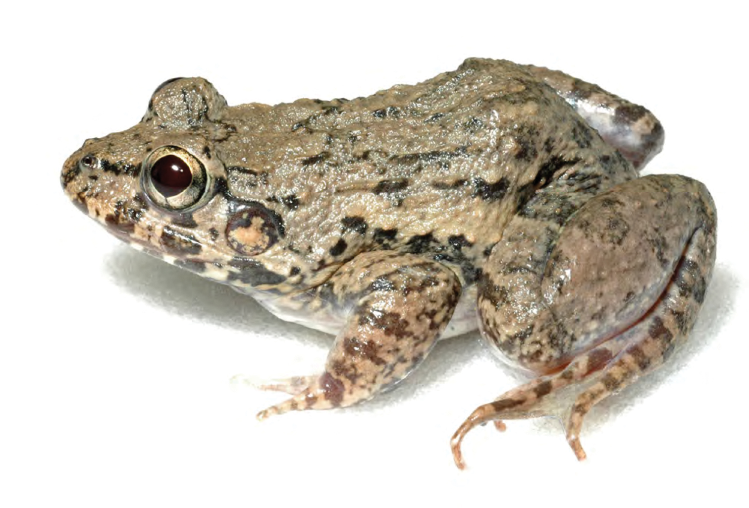 Fejervarya moodiei from Ilocos Norte Province. Photo: ACD.